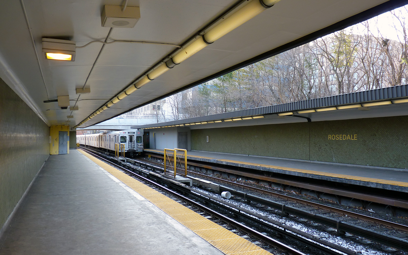 Southbound Train arriving at Rosedale Station in Toronto.